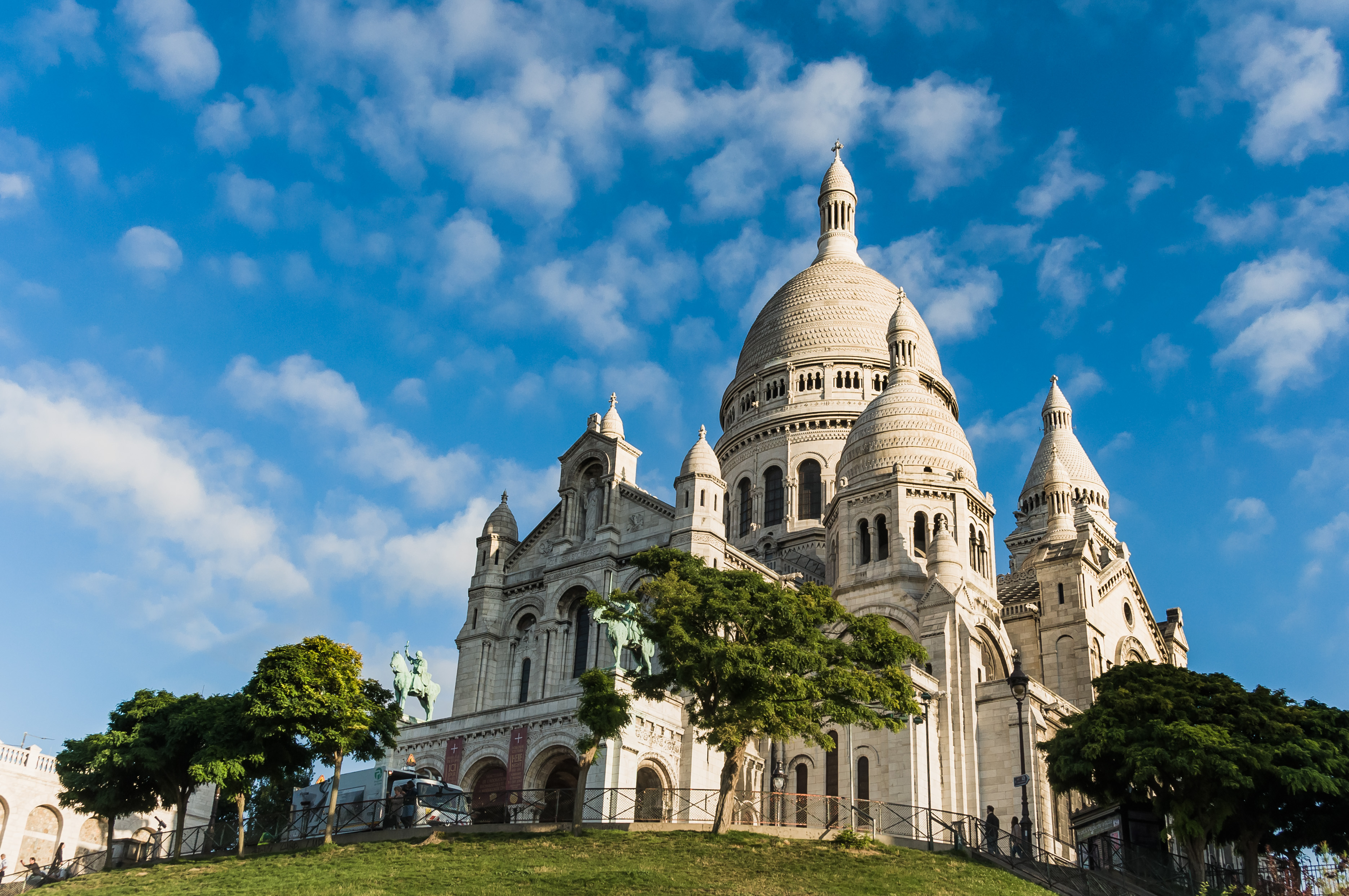 The Basilica of the Sacred Heart of Paris, commonly known as Sacré-Cœur Basilica and often simply Sacré-Cœur (in French, Basilique du Sacré-Cœur) is a Roman Catholic church dedicated to the Sacred Heart of Jesus, in Paris, France. The basilica is located at the summit of the butte Montmartre, the highest point in the city. It was designed by Paul Abadie and was constructed between 1875 and 1914.